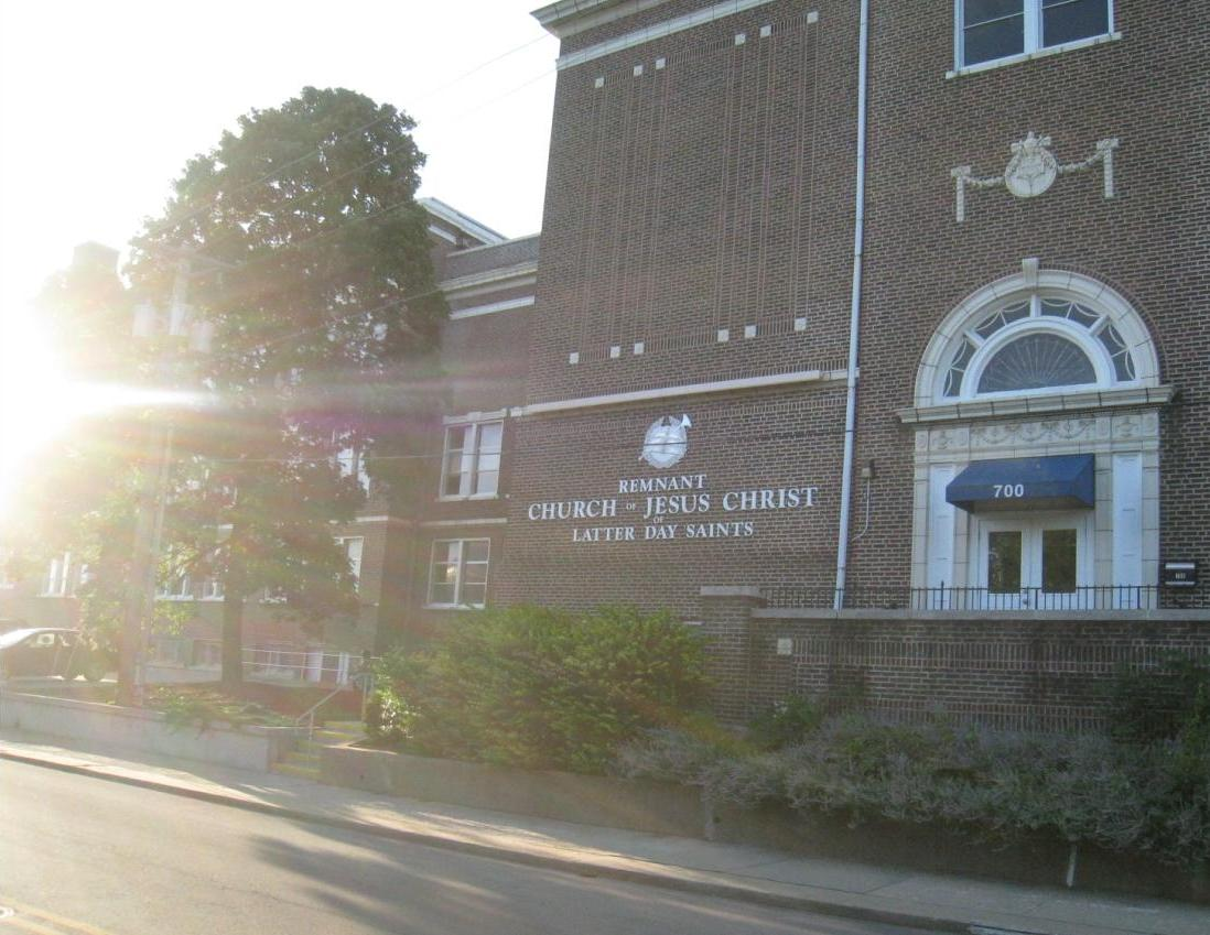 Photograph of a secondary headquarters building of the Remnant Church of Jesus Christ of Latter-day Saints ( a "Restoration Branch" offshoot of the Reorganized Church of Jesus Christ of Latter-day Saints.